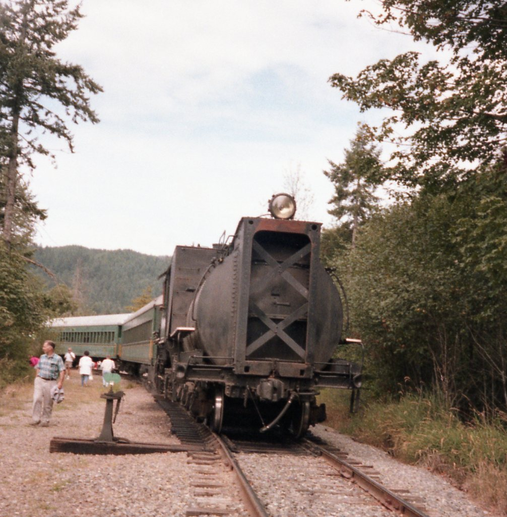 No. 5 Steam Locomotive of Mt. Rainier Senic Rail Road